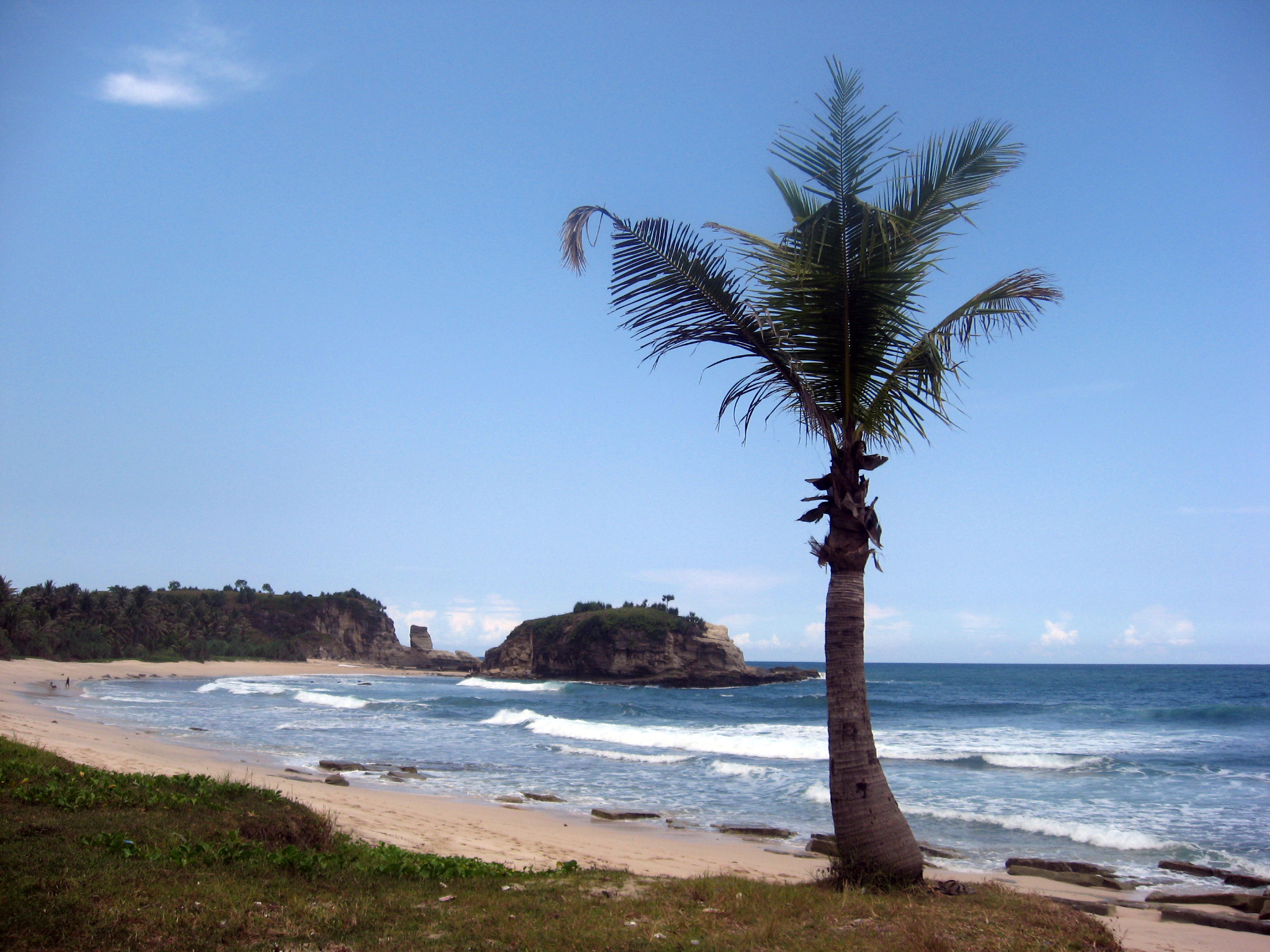 A view of Klayar Beach, Pacitan Regency, East Java, Indonesia in 2009.